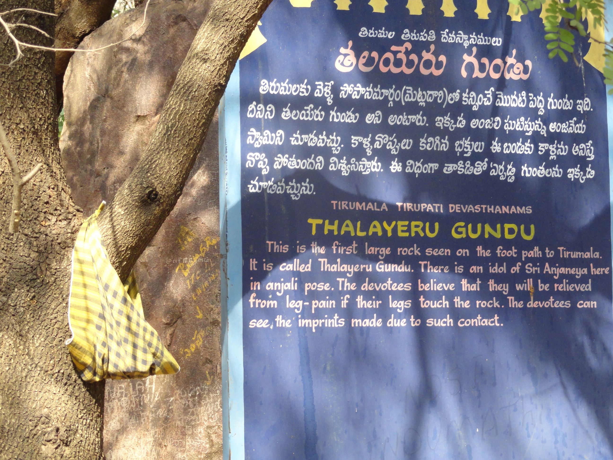 tirupati.... alipiri on foot path way to tirumala talayuru gumdu photographed by me